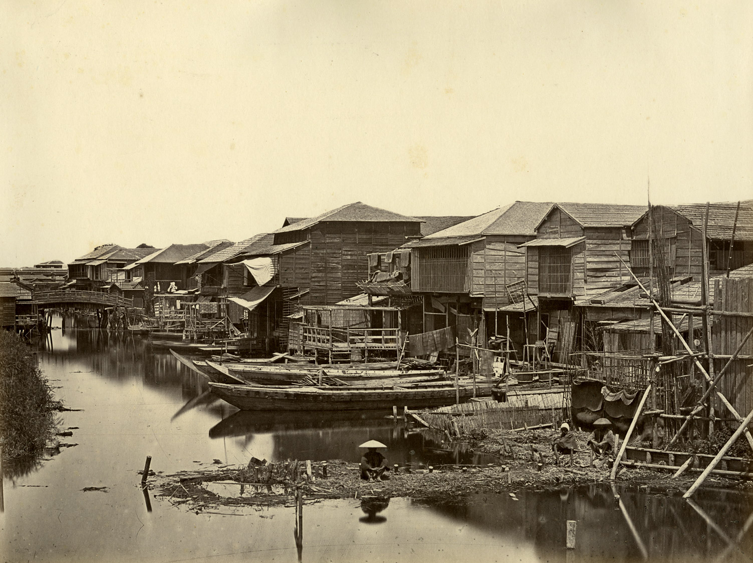 YOKOHAMA. IN THE beginning of 1859, Yokohama was an insignificant fishing village, in the midst of a marsh on the opposite side of the bay to Kanagawa, which town was originally the one named by Treaty to be opened to Foreign trade on the 1st July, 1859. Whether the Japanese conceived that by placing Foreigners in a comparatively isolated position, they could exercise a greater restriction on intercourse, or whether they saw that the position of Yokohama was better adapted for landing and shipping purposes, is now of little consequence; but they voluntarily went to great expense in constructing a causeway connecting Yokohama with the Tokaido, and in building piers and landing places; they moved as if by magic, a considerable number of people and houses, and erected sundry small godowns, &c., in anticipation of the arrival of foreign merchants; and although the foreign Consuls were at first domiciled at Kanagawa, and Ministers demurred at what seemed to be an evasion of the letter of the Treaty, still Yokohama, from the fact of its greater convenience as a shipping place, grew and increased daily.